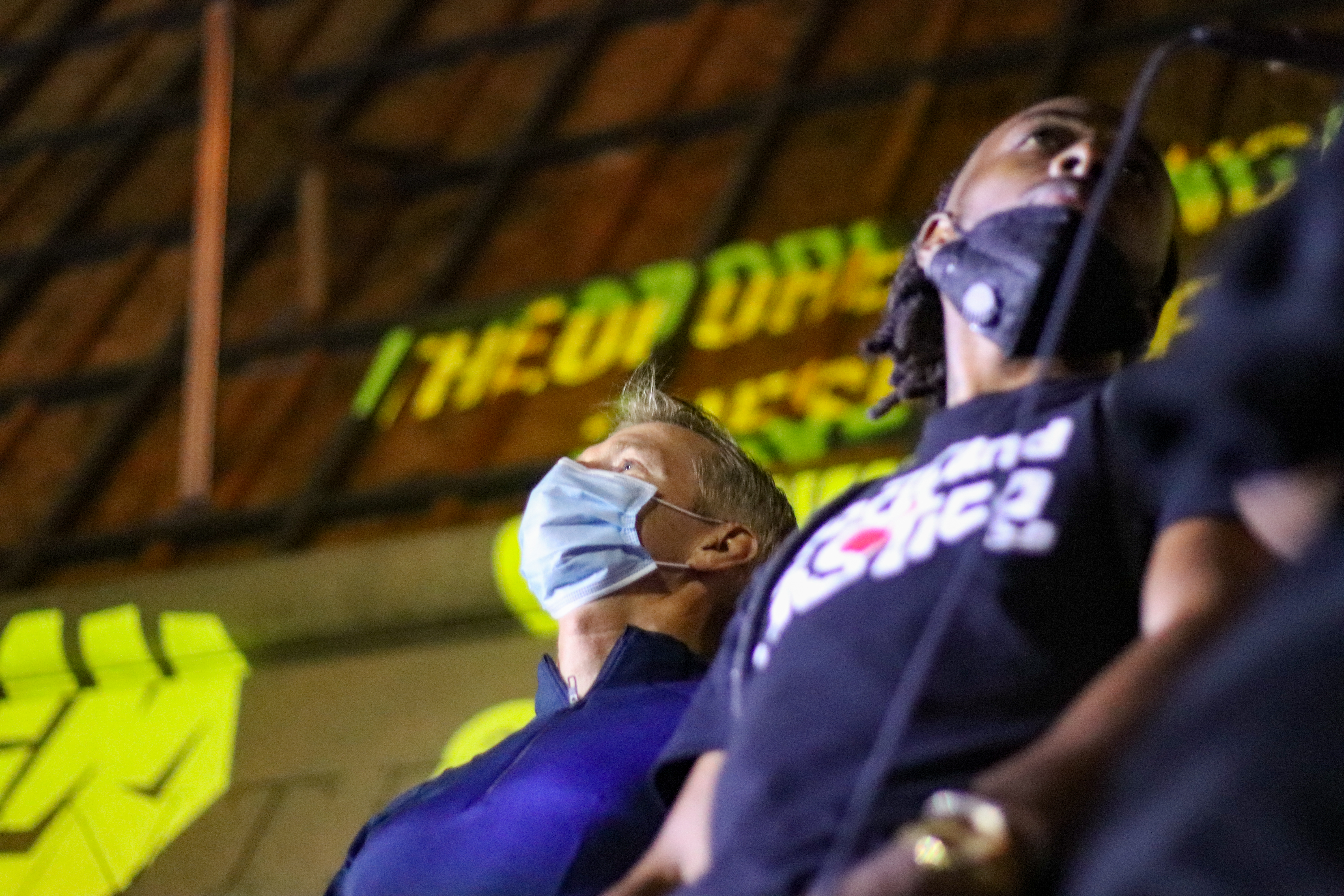 Portland, Oregon mayor Ted Wheeler during the 2020 George Floyd protests in Portland, Oregon, in front of projection stating "THEODORE RESIGN".